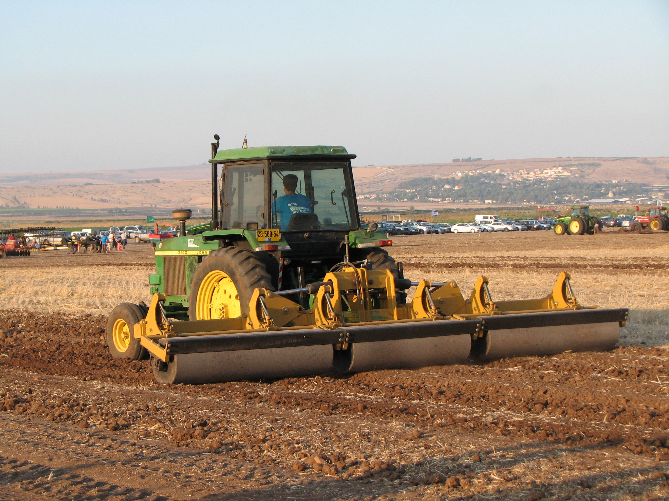 A John Deere 3140 tractor